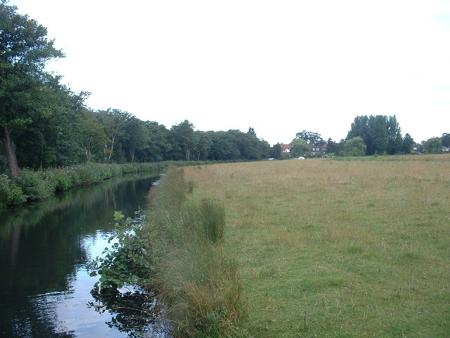 Tyler's Cut, Dilham. Connecting Dilham village with the River Ant